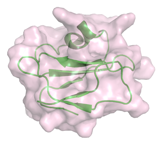 Structure of the MAC inhibitor CD59 - PDB 1ERG picture made using pymol.